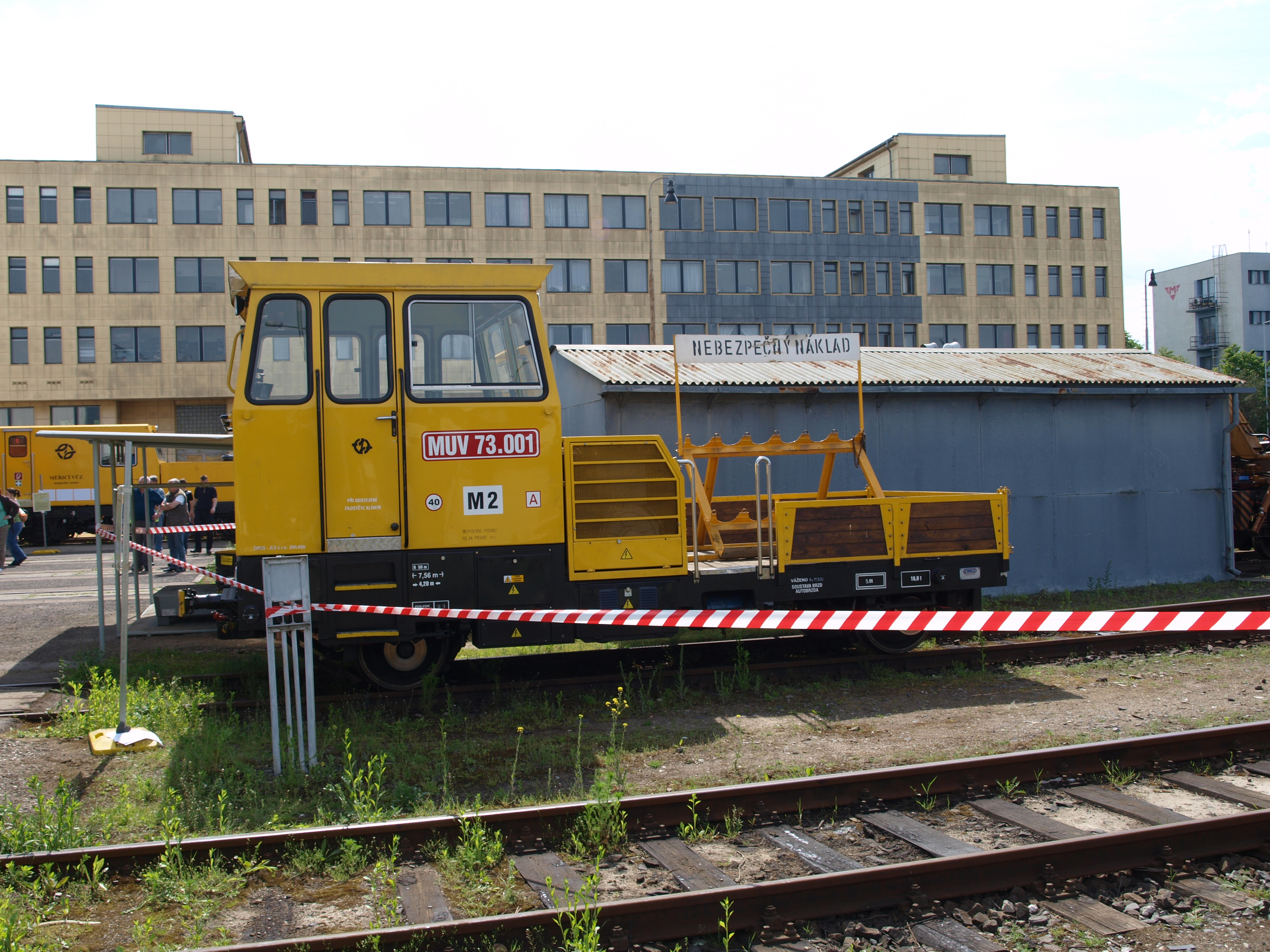 MUV 73, Kačerov depot